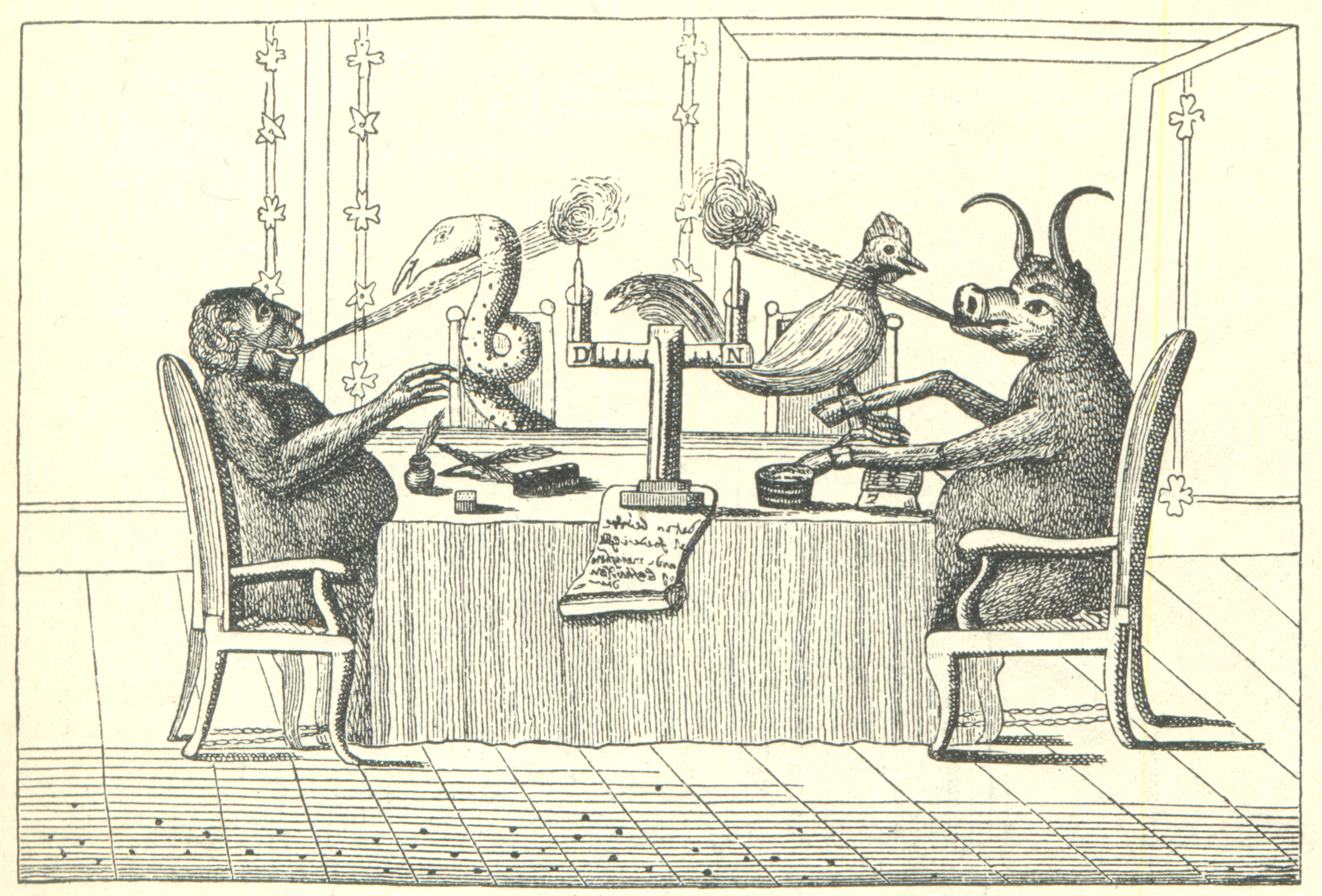 "Særsynet af en Commission i Aaret 1798". Karikatur fra 1798 der forestiller medlemmerne af den i 1797 nedsatte Trykkefrihedskommission som dyreskikkelser i færd med at slukke Pressefrihedens lys./"The rare view of a commission in the year 1798". Caricature from 1798 that depicts the members of the commission that was established in Denmark 1797, to scrutinize the laws regarding the freedom of the press, as animals occupied with blowing out the candles of Freedom of the press.